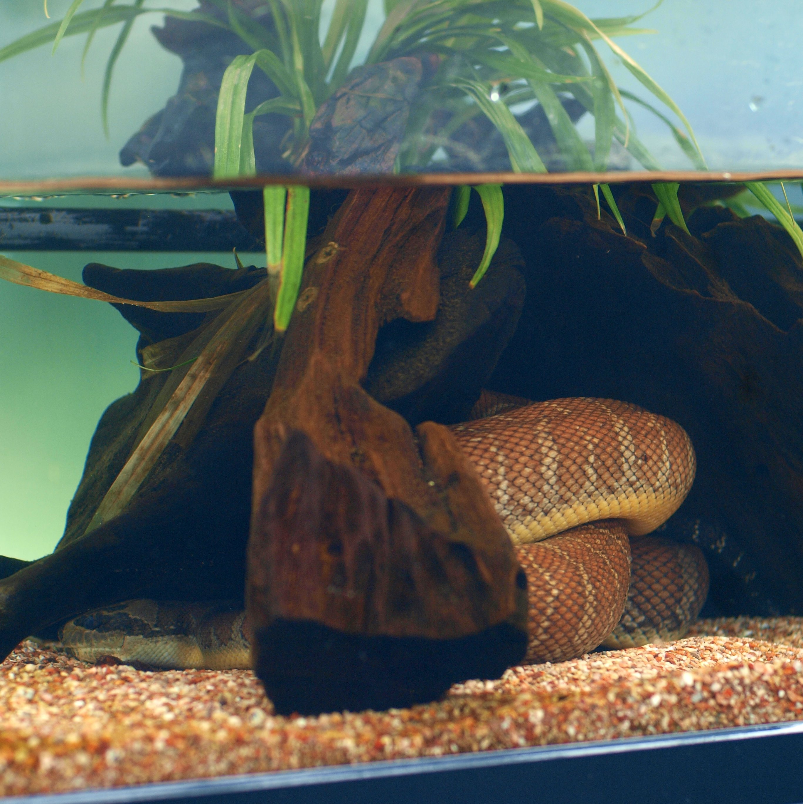 Location: Toba Aquarium, Japan Other photos: NCBI Taxonomy ID:192599 ITIS Taxonomy ID:700430 Copyright: OpenCage ヒロクチミズヘビ Masked water snake 動物界 脊索動物門 爬虫綱 有鱗目 ナミヘビ科 ヒロクチミズヘビ属